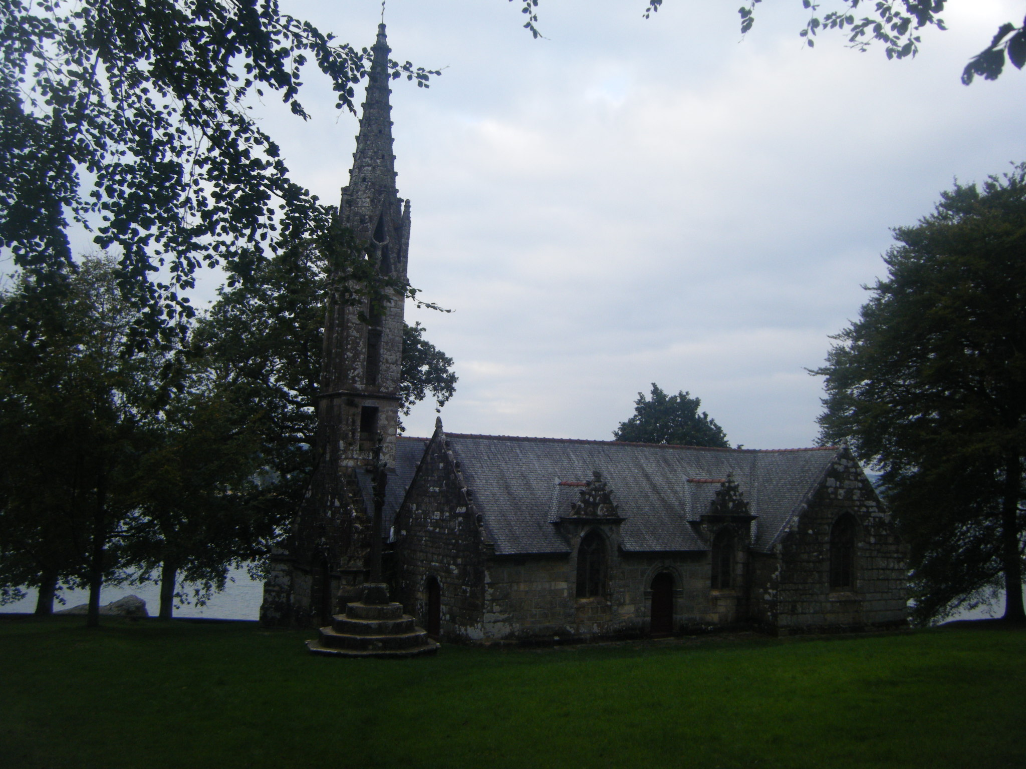 picture of chapel Sant Yann in Plougastell Daoulaz